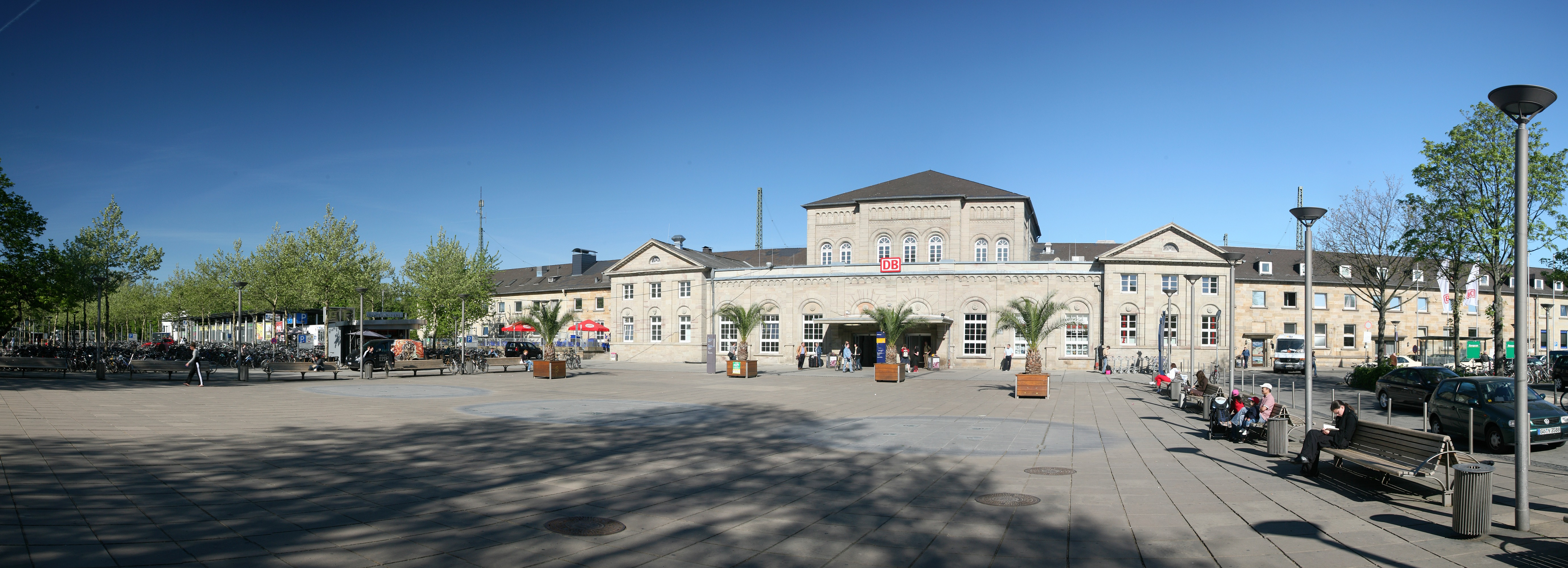 In front of Göttingen station, Germany